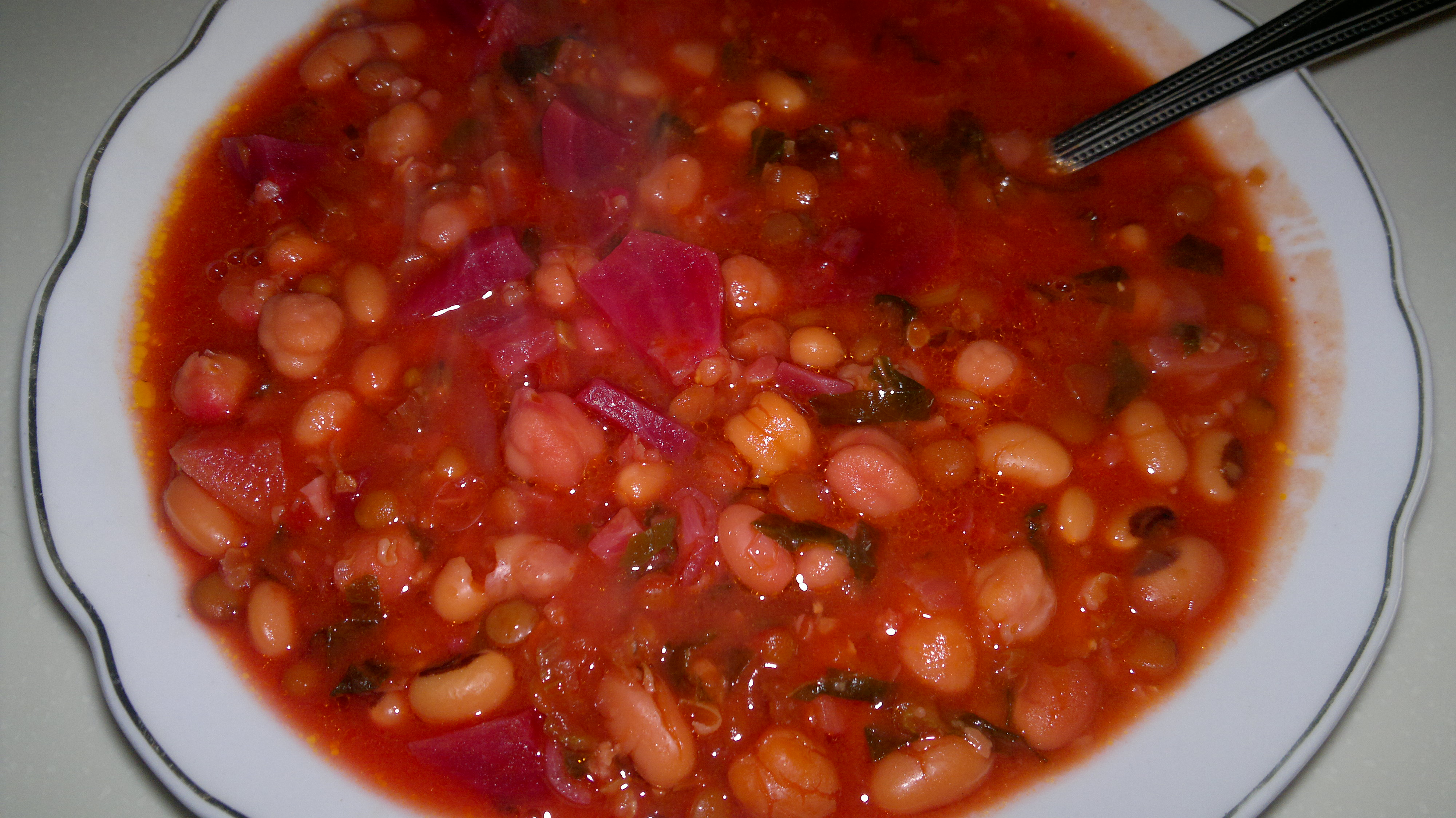 Tirxene, A Kurdish folklore food. Kurdî: ترخێنە، خواردنێکی فۆلکلۆری کوردی.